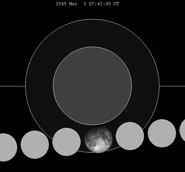 March 2045 lunar eclipse chart of moon's path through the earth's shadow. thumb